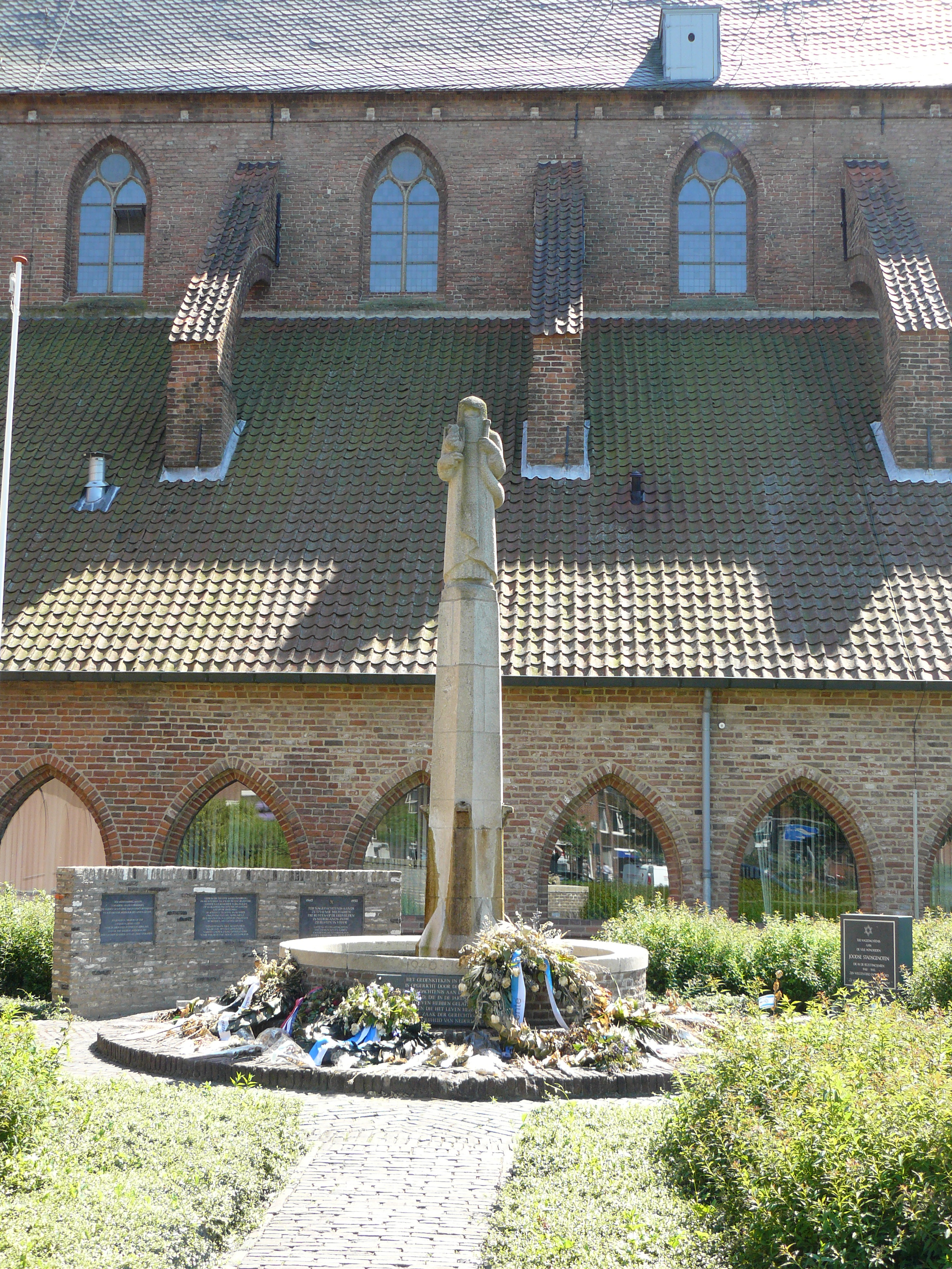 The Gideon-monument was established in 1950 nearby the Broederenkerk in Zutphen in memory of civilian casualties and fallen soldiers in the Second World War